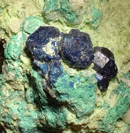 Boleite, Atacamite Locality: Amelia Mine, Santa Rosalía (El Boleo), Boleo District, Municipio de Mulegé, Baja California Sur, Mexico (Locality at ) Size: 5.2 x 4.2 x 3.0 cm. A RICH, showy and uncommon combination specimen from the famous Amelia Mine of blue-green atacamite richly surrounding a well-placed cluster of lustrous, navy-blue boleite cuboctahedrons on stabilized clay matrix. This piece, from Ed Swoboda’s personal stash, while not particularly great looking, is RARE and desirable, because of the uncommon cuboct boleites and the richness of the atacamite.